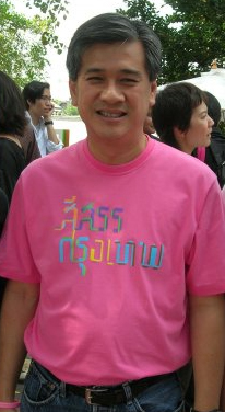 A photo I took